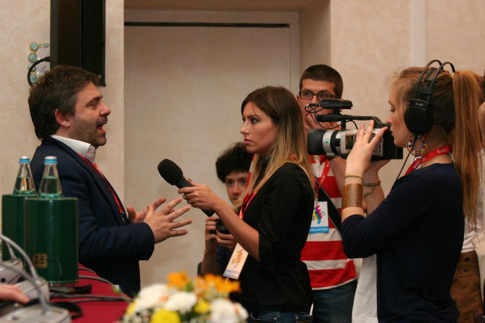 Gennaro Carotenuto and volunteers of the International Journalism Festival 2011 in Perugia.